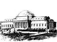 Design for the Capitol of Puerto Rico by Frank Perkins, 1907